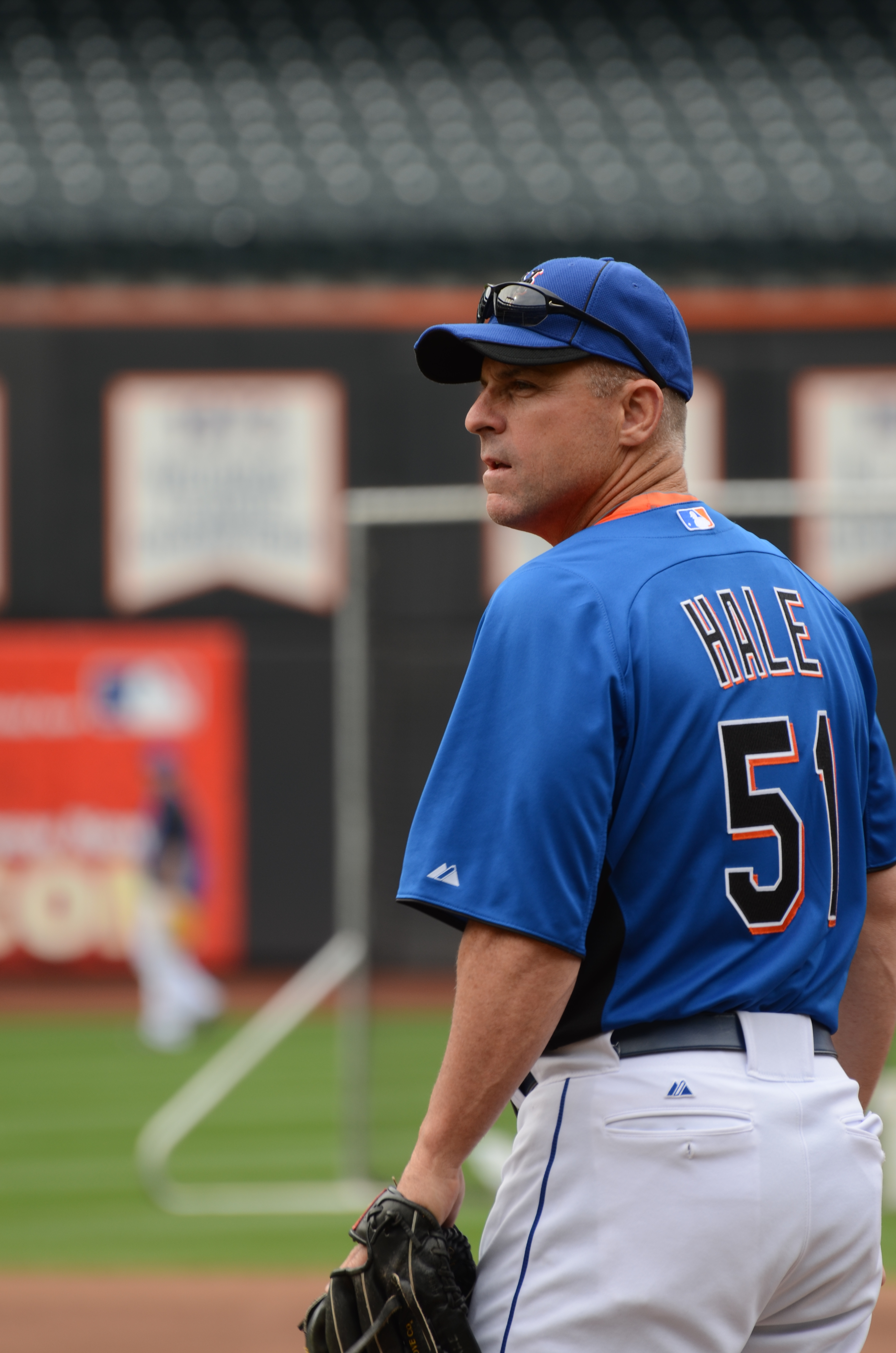 Chip Hale of the New York Mets